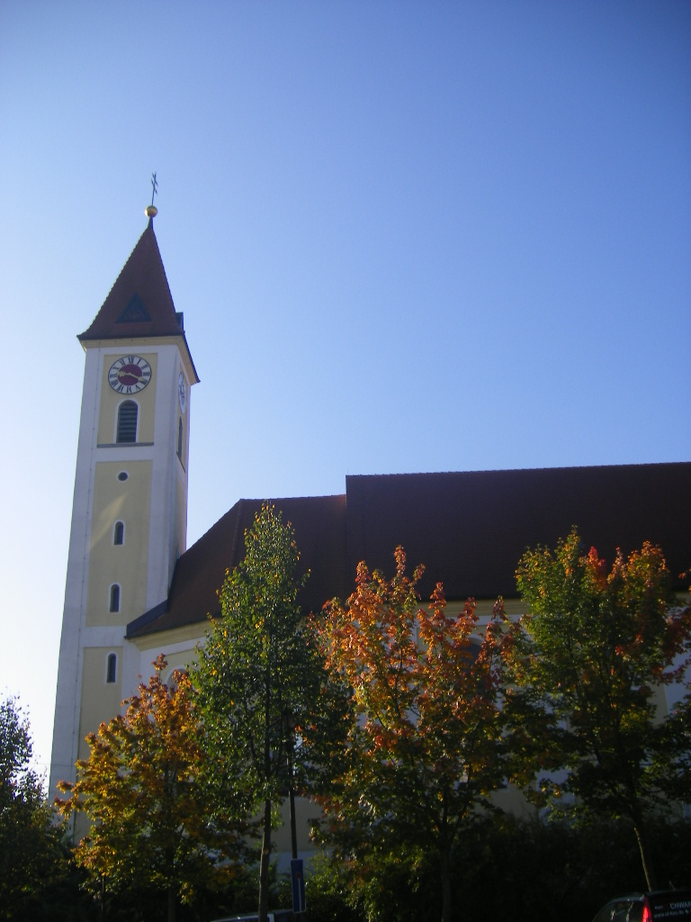 Offingen, view of Saint George's Parish Church from north.